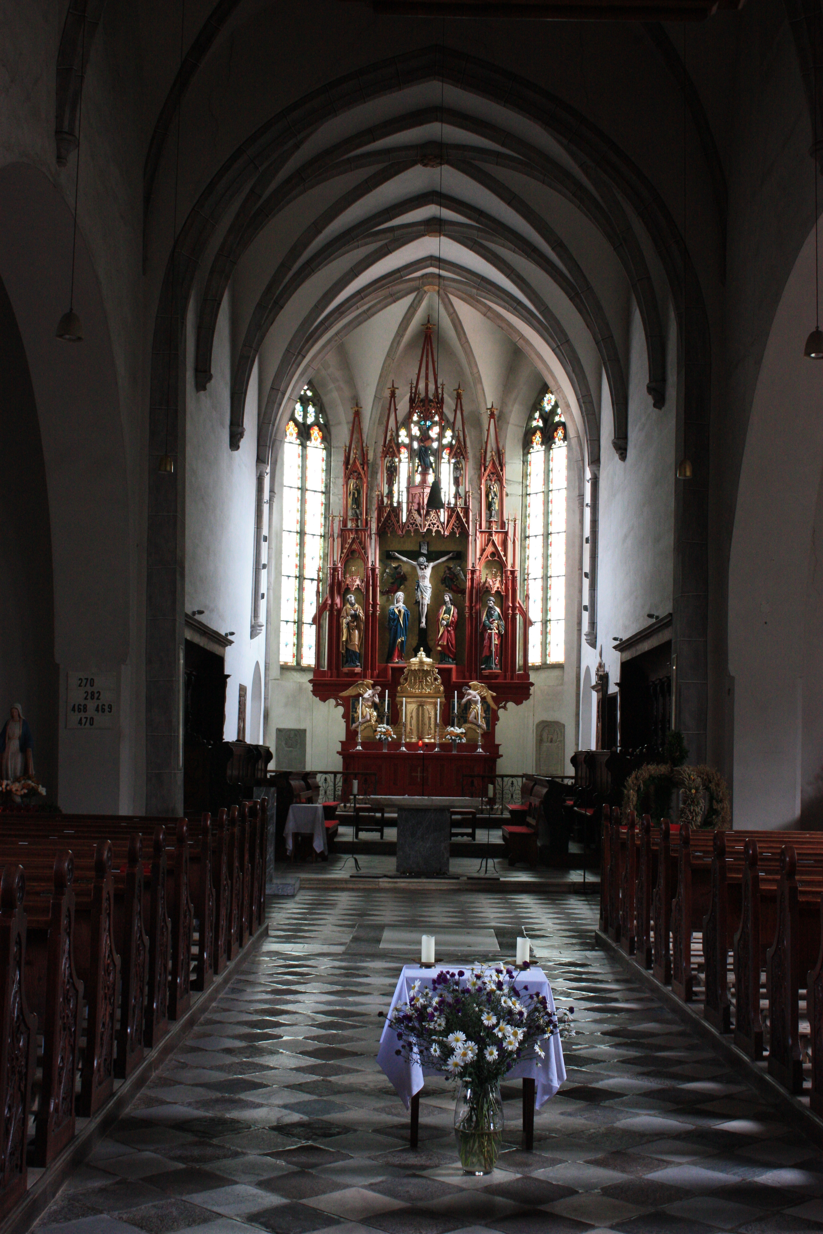 Parish church Saint Andrew - Interior Locality: Sankt Andrä Community:Sankt Andrä